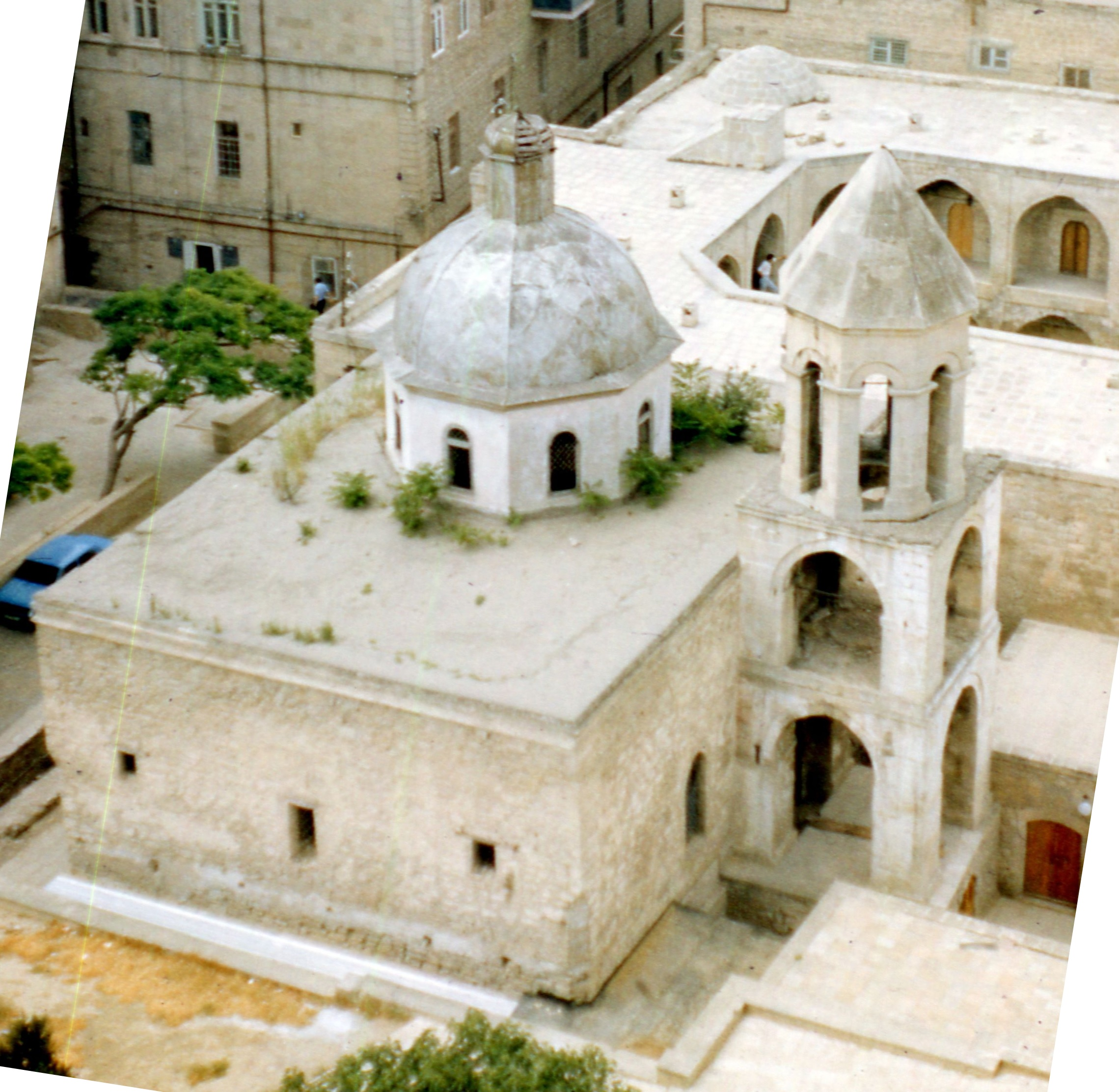 Church in Ichery Sheher